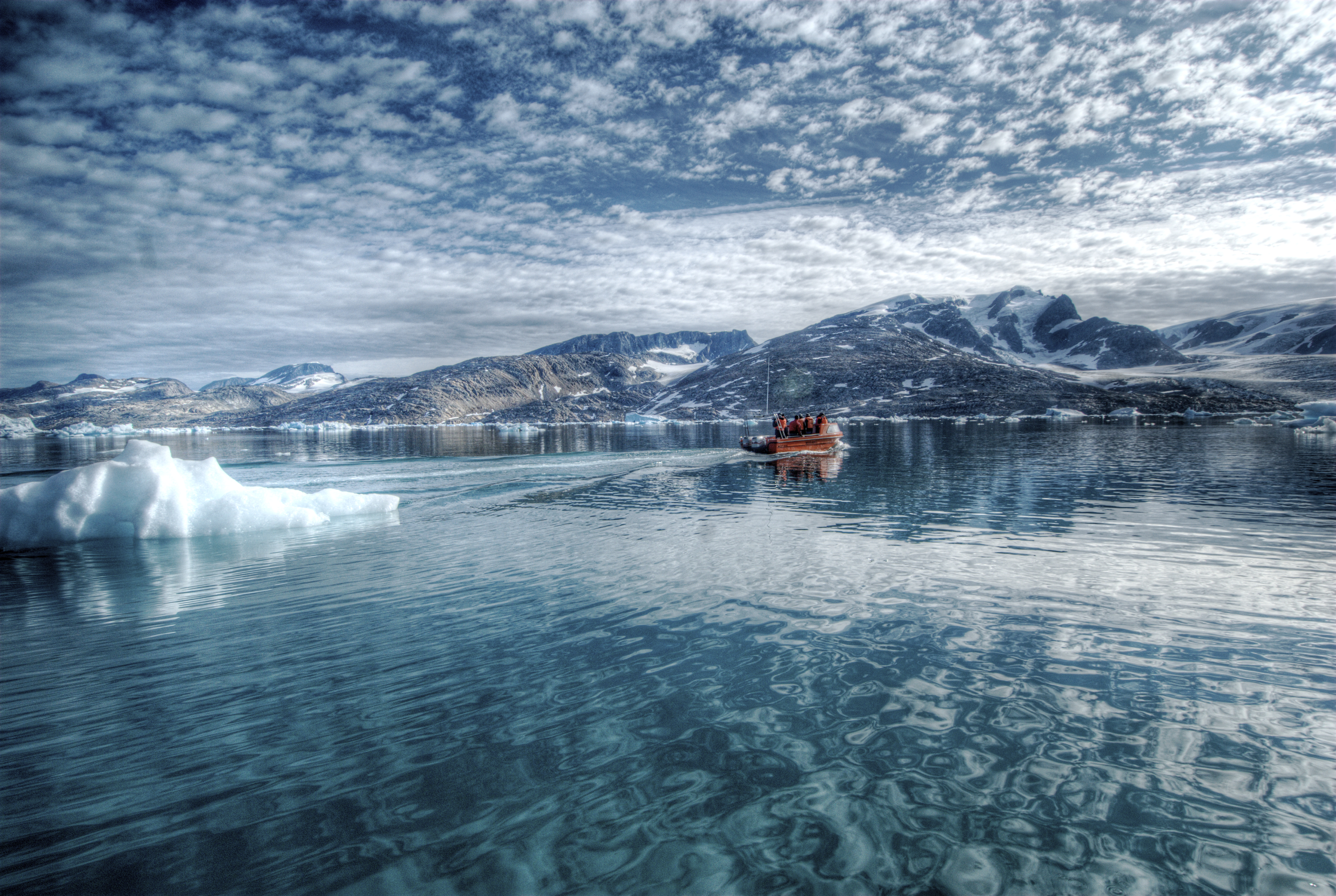 An icy lagoon in Eastern Greenland. The Random Travelers' Society went on a little boating trip in the middle of absolutely nowhere.